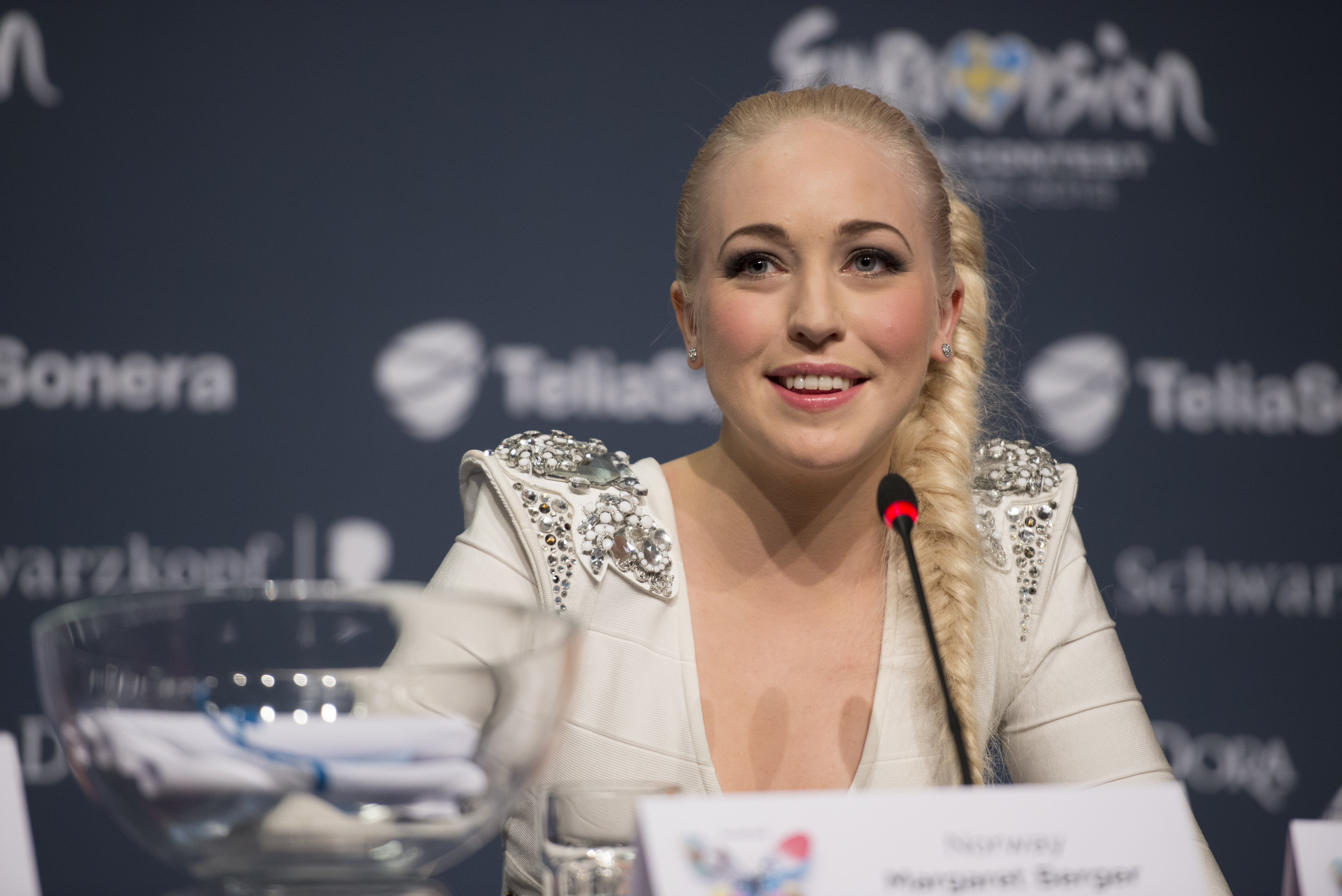 Margaret Berger at a press conference during the Eurovision Song Contest 2013 in Malmö. (Help translate this text)